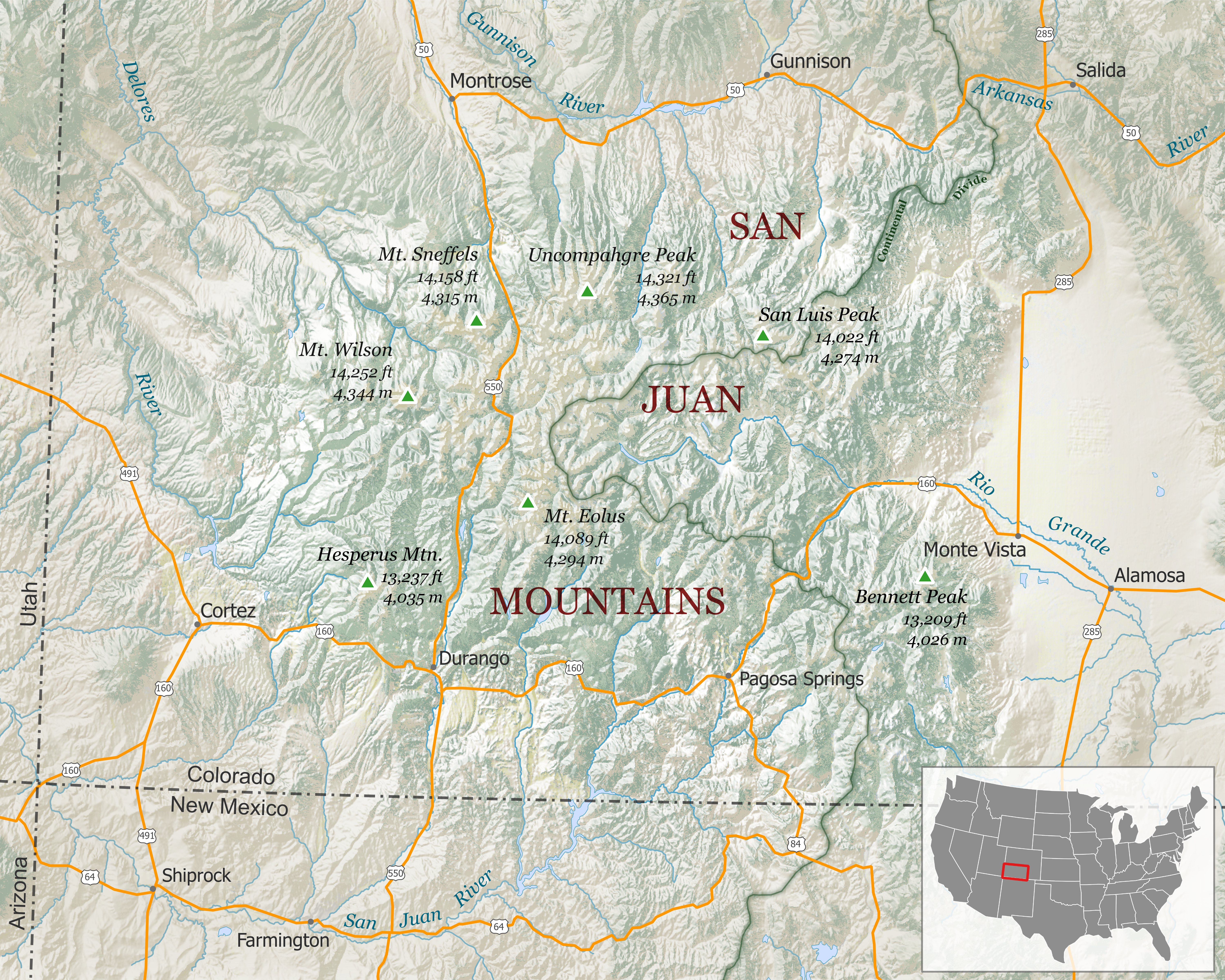 Map of the San Juan Mountains are of southern Colorado. Includes major highways, rivers, towns and peaks. Shaded relief basemap is used to visualize the terrain. Scale - 1:1,200,000 Projection: North America Albers Data Sources: Land Cover, Highways, Shaded Relief, Cities/Towns; Hydrography – The National Map Small Scale Collection; Peaks – USGS GNIS; State Boundaries – Natural Earth data